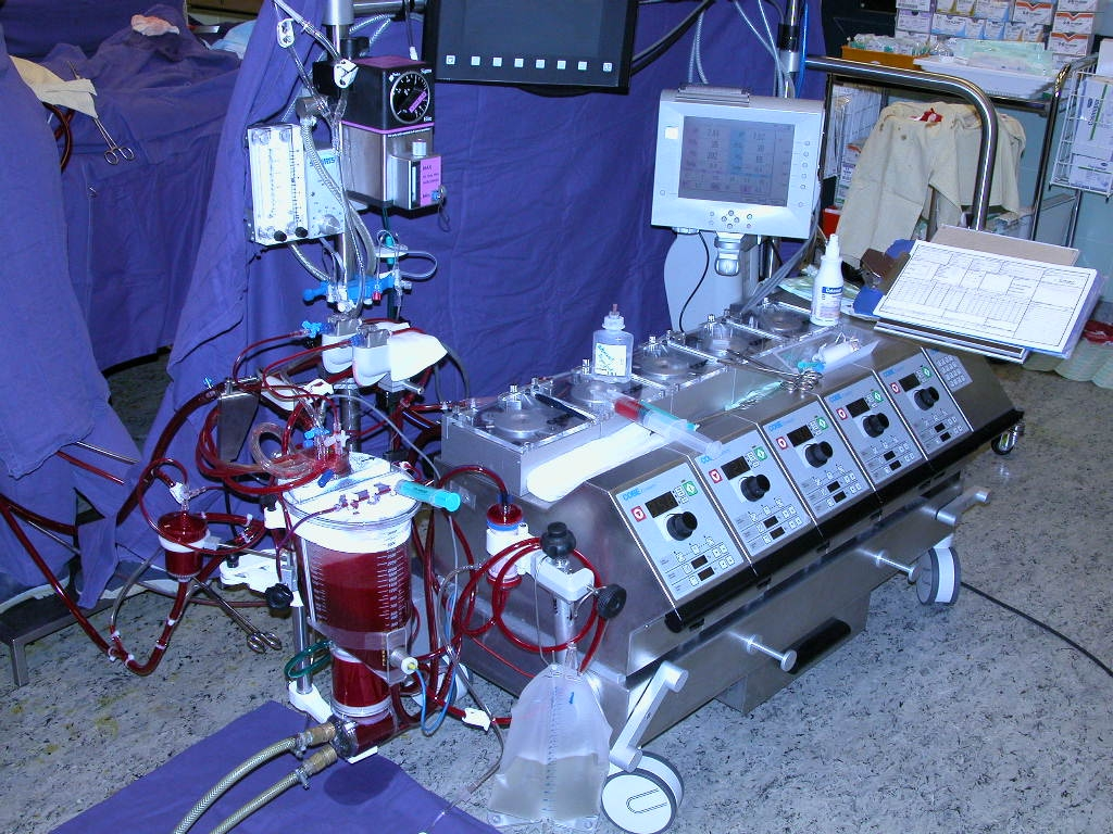 Heart-lung machine